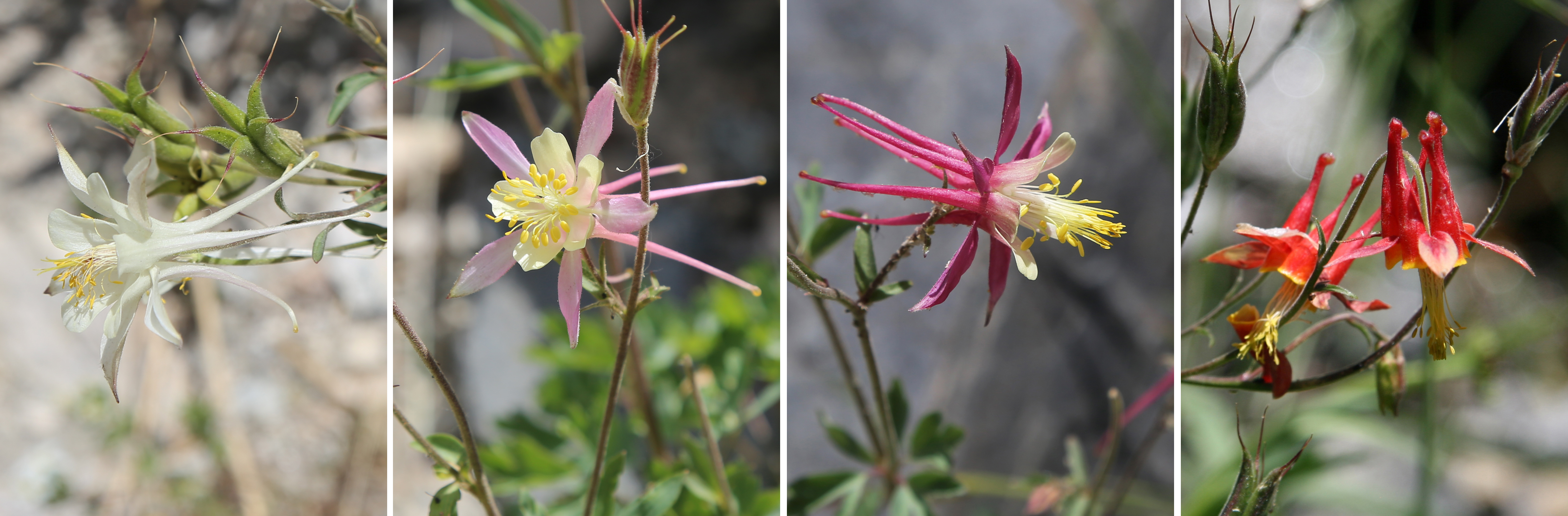 Transition of hybrid forms between the larger, erect, white Coville's columbine (Aquilegia pubescens) and the smaller, drooping, red-&-yellow crimson columbine (Aquilegia formosa), shown with 4 flower closeups. The first 3 are from the shore of Long Lake in Little Lakes Valley, and the last is from the Kaweah basin between Hamilton and Precipice Lakes.